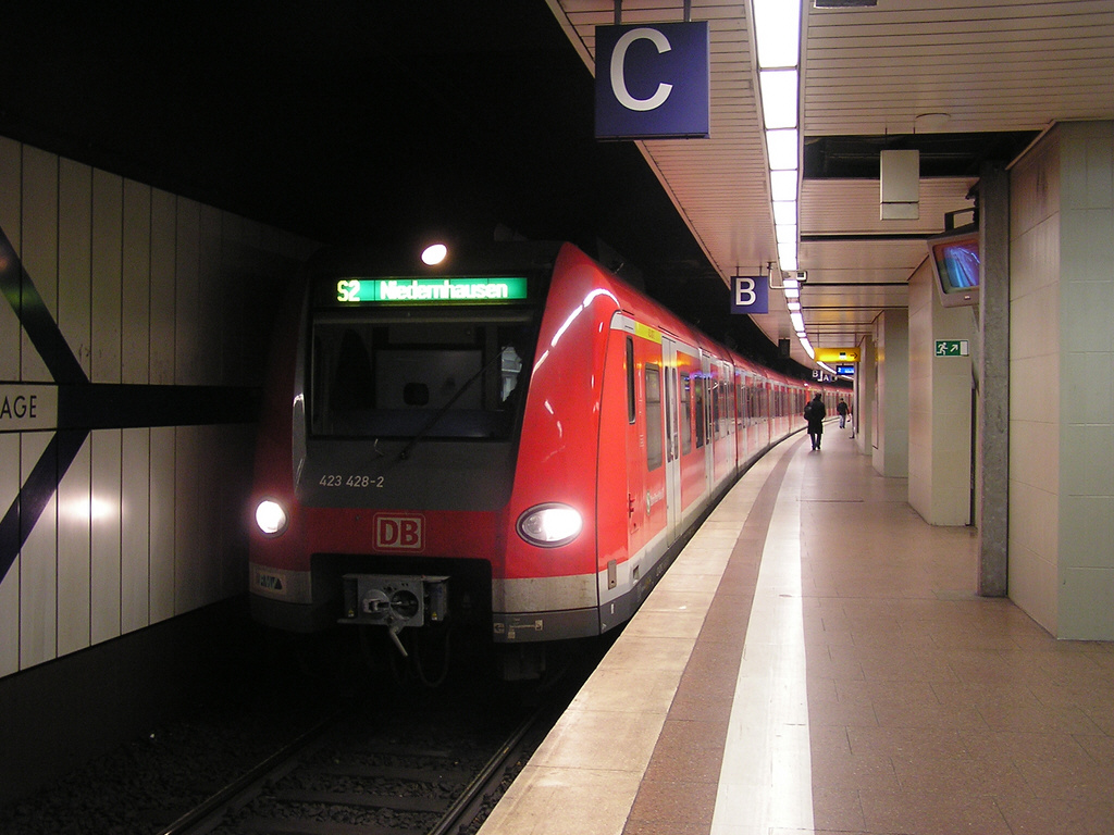 EMU 423 in the station Frankfurt-Taunusanlage